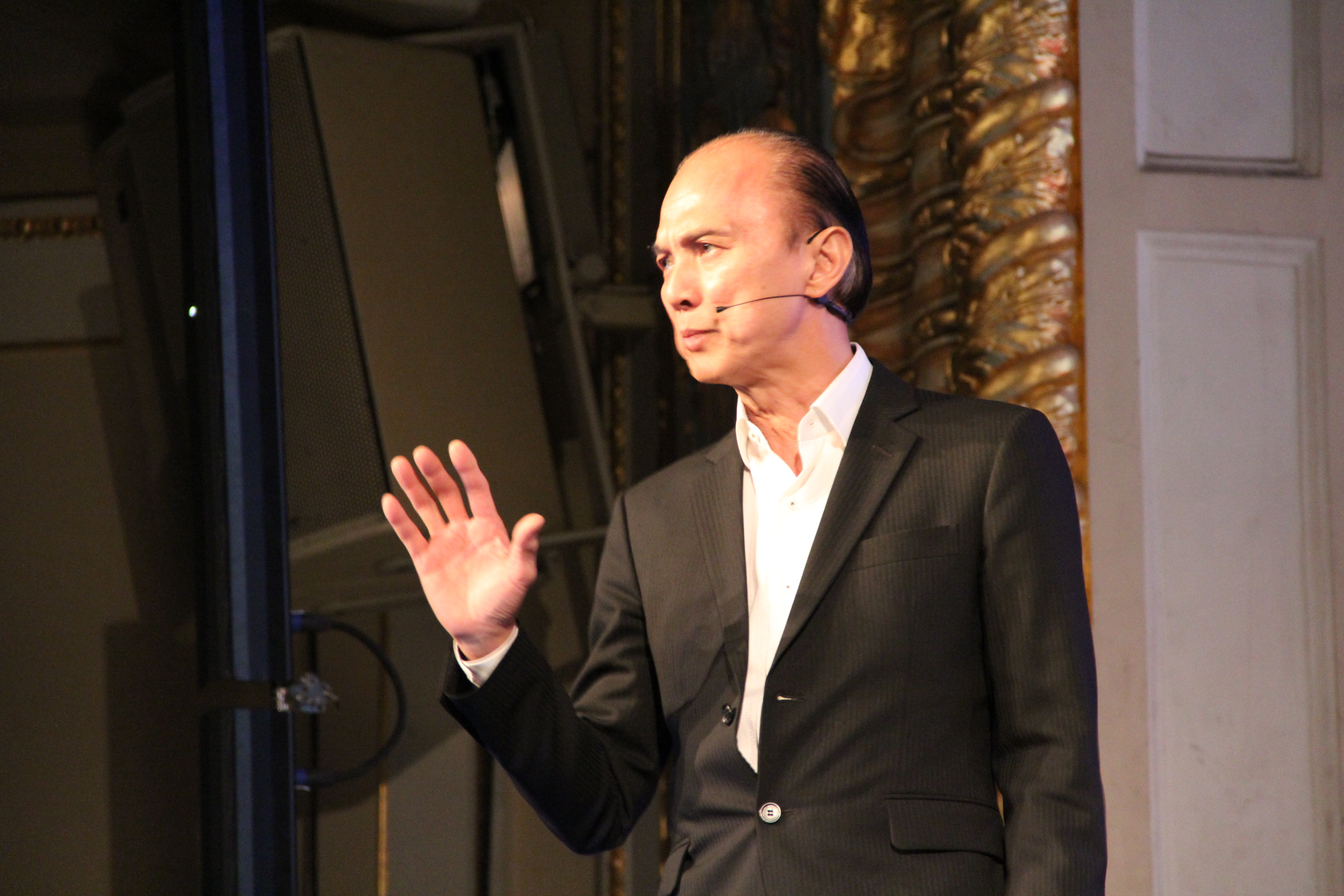 TEDxShanghai Jimmy Choo